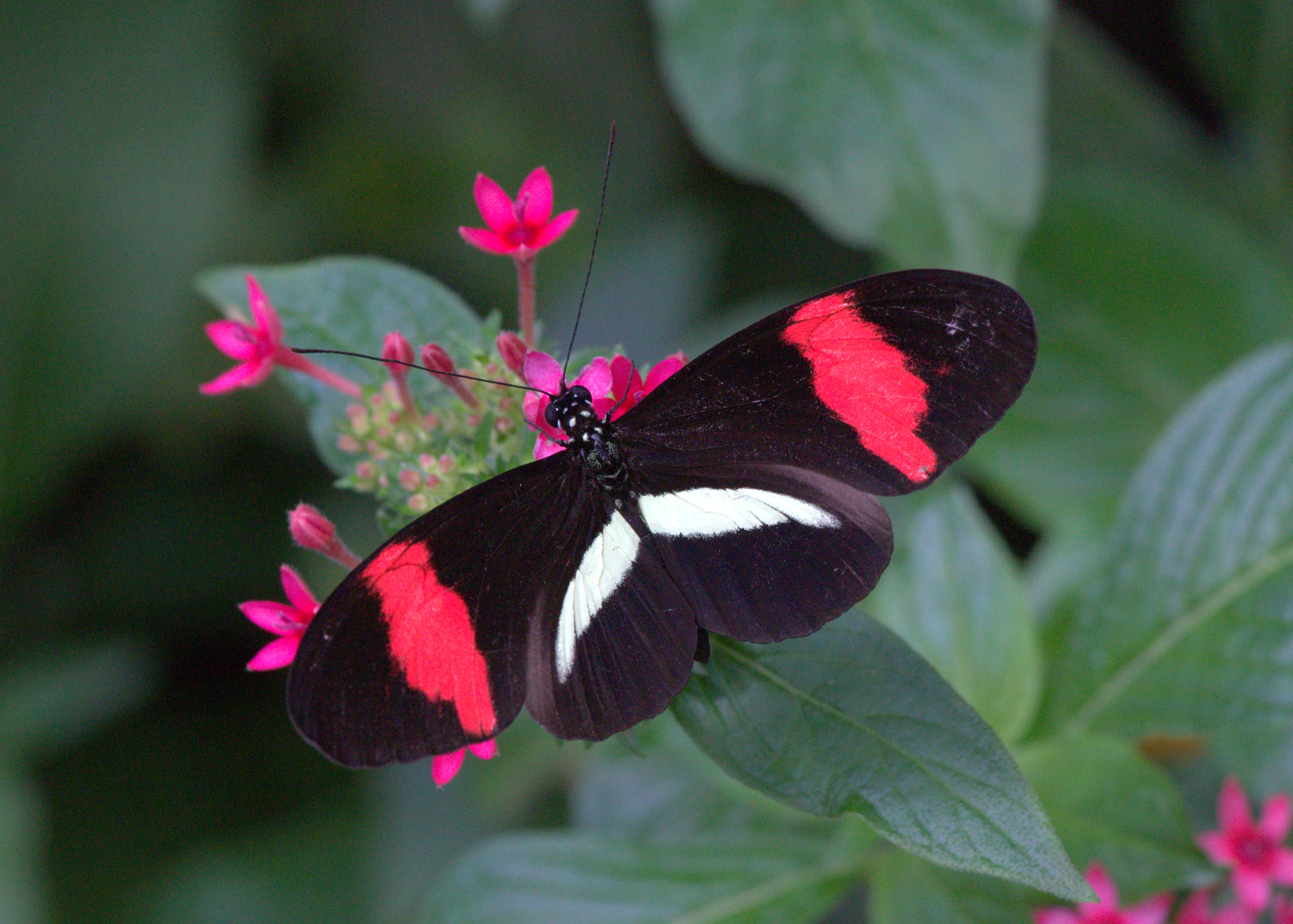 Heliconius erato taken at Krohn Conservatory butterfly show.